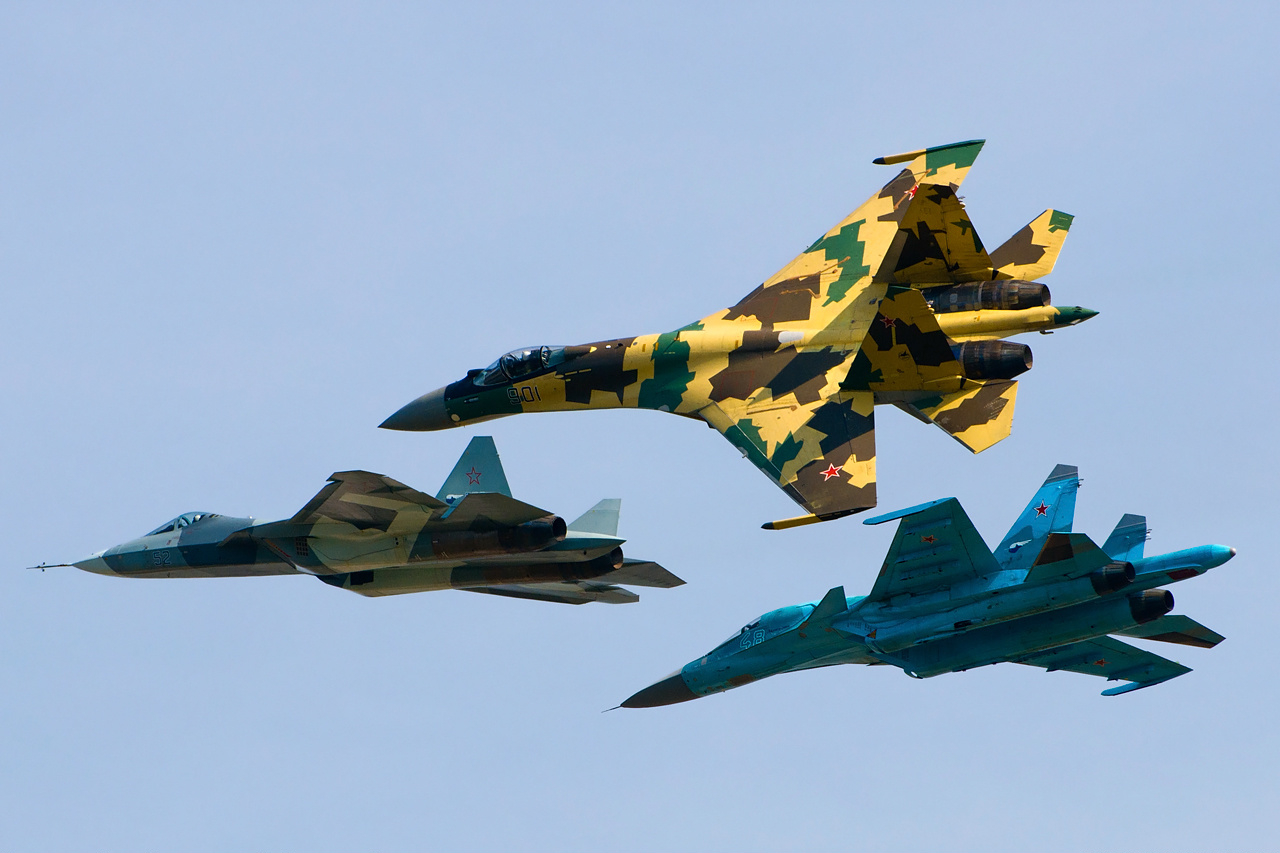 A Sukhoi Su-35S (Su-35BM) multirole fighter, Su-34 fighter-bomber, and a T-50 stealth multirole fighter flying together.